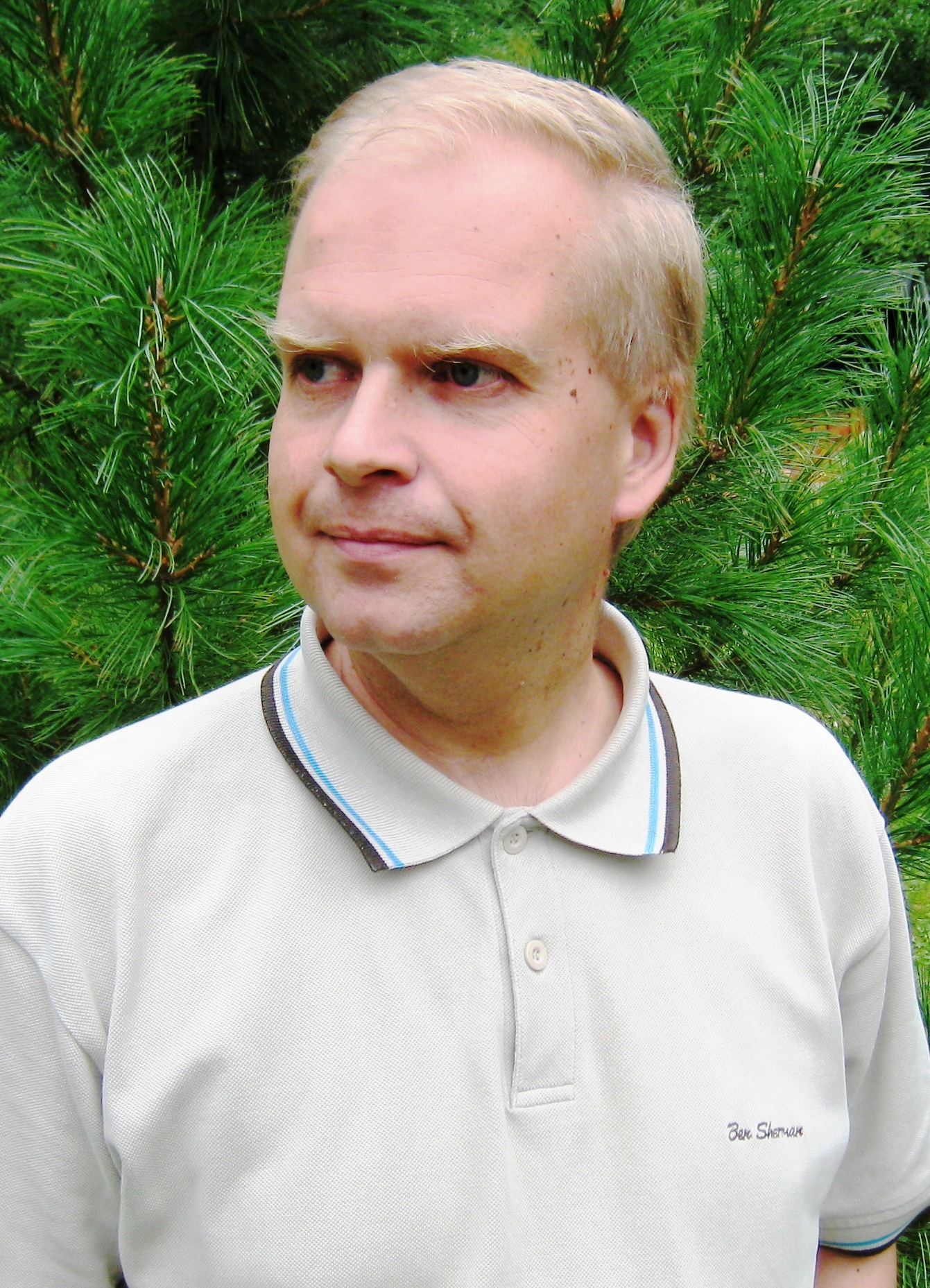 Vahur Made, Estonian historian.